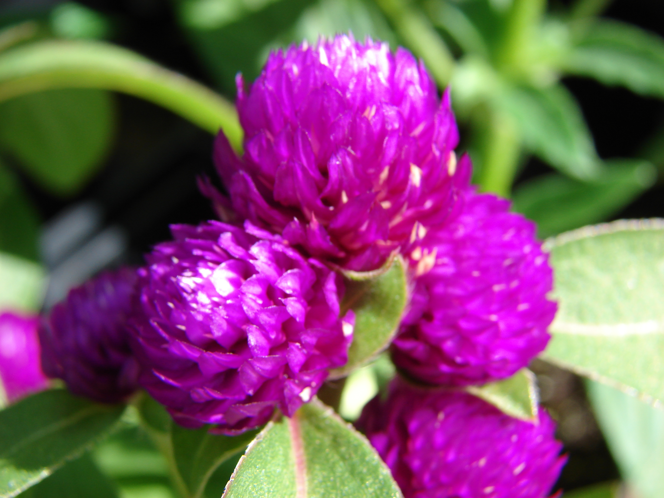 Gomphrena globosa (flowers). Location: Maui, Home Depot Nursery Kahului